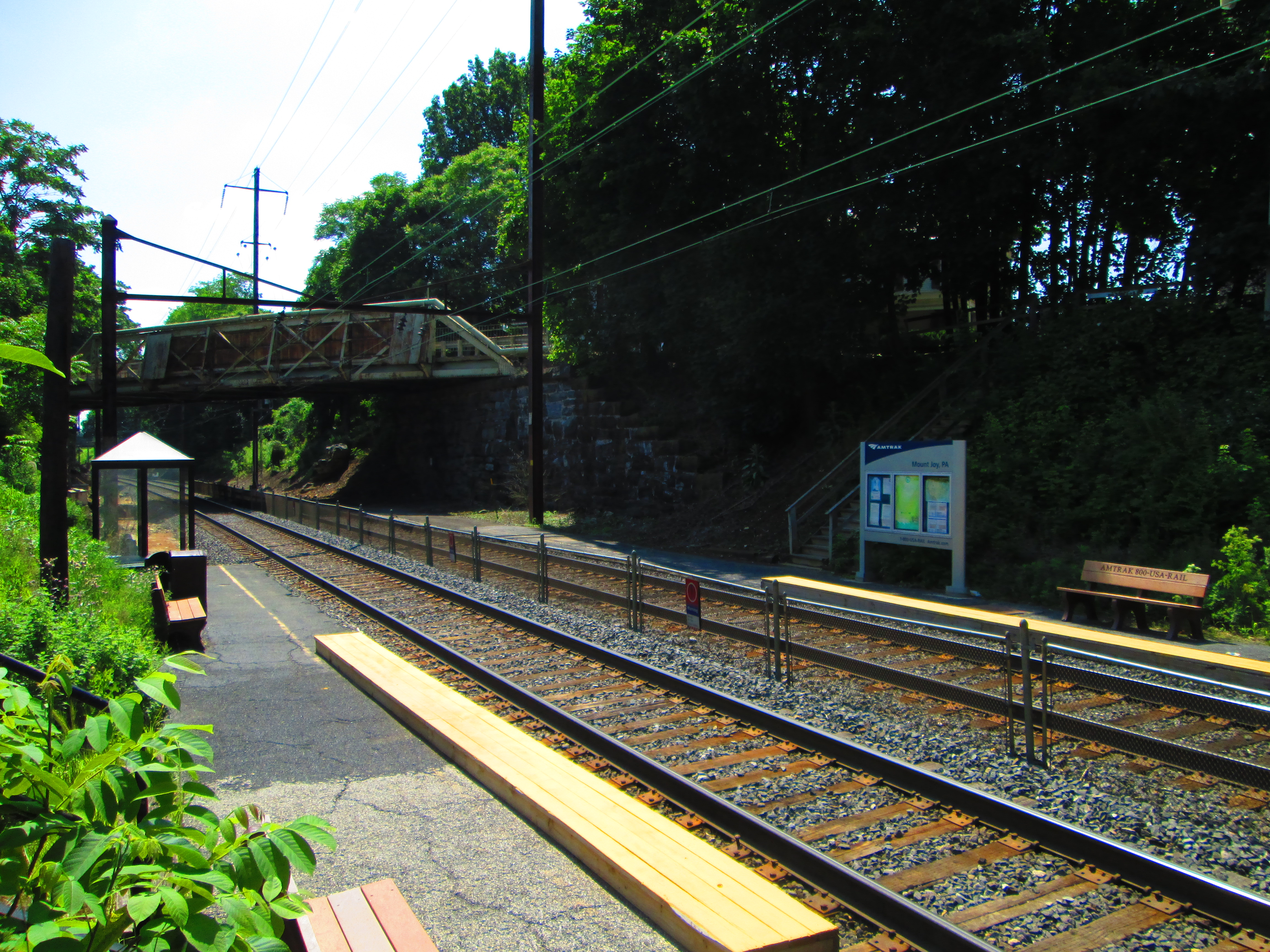 Mount Joy station in June 2013